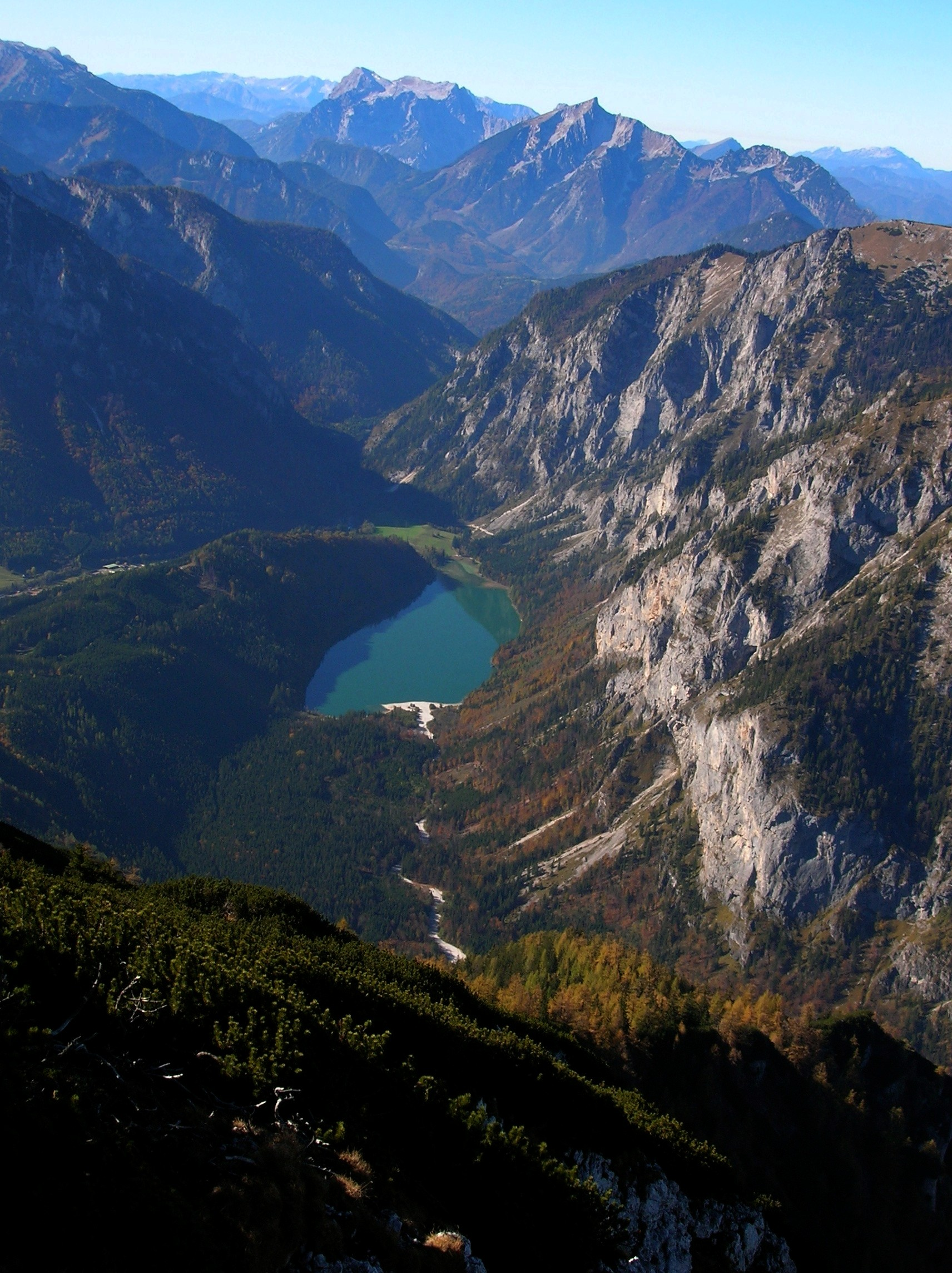 Looking down to the Lake of Leopoldstein, to Seemauer, Großer Buchstein and Tamischbachturm (from left to right)